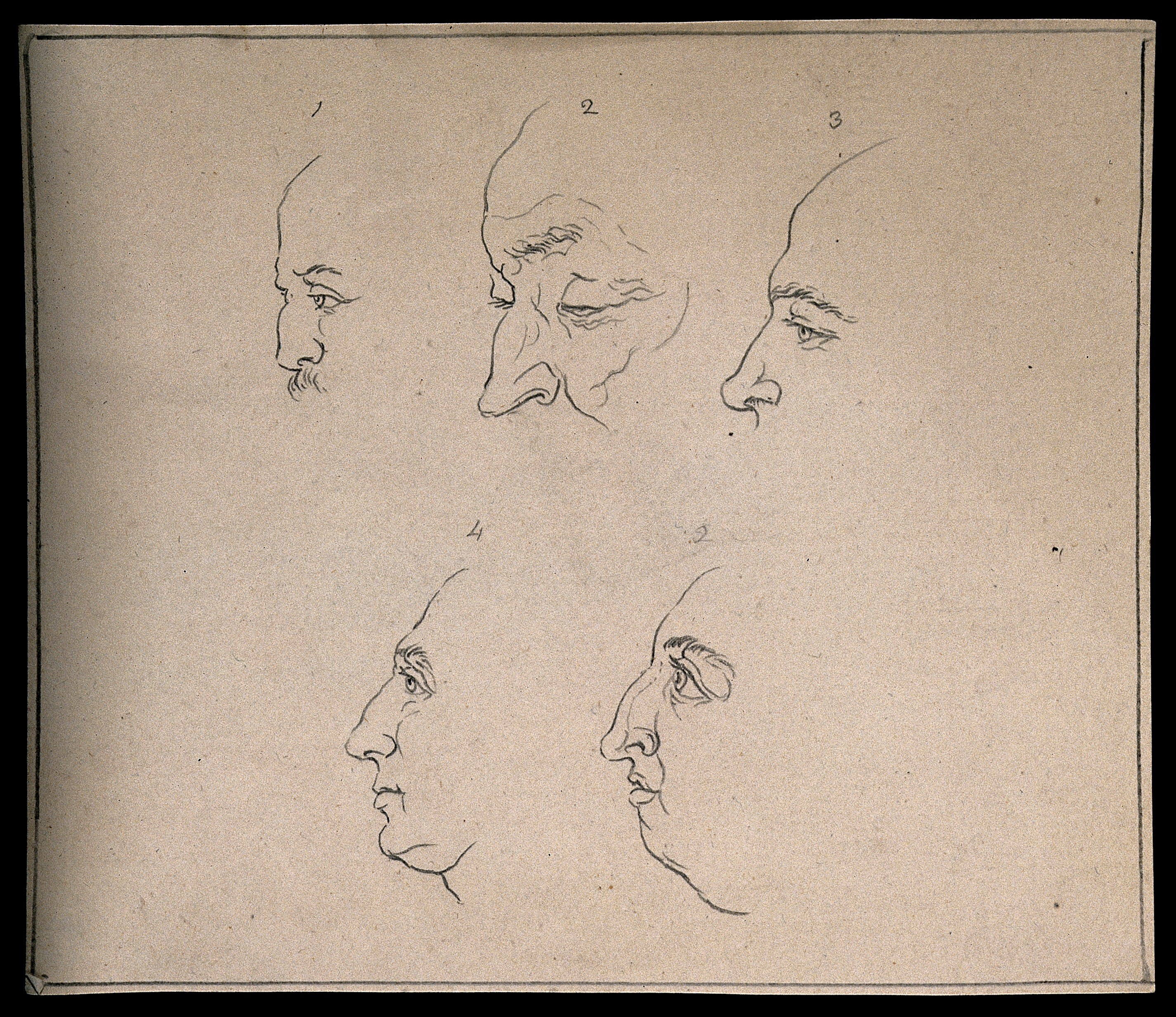 Five profiles exhibited for their noses. Drawing, c. 1794. Iconographic Collections Keywords: Physiognomy; Thomas Holloway; noses; Johann Caspar Lavater; Drawings